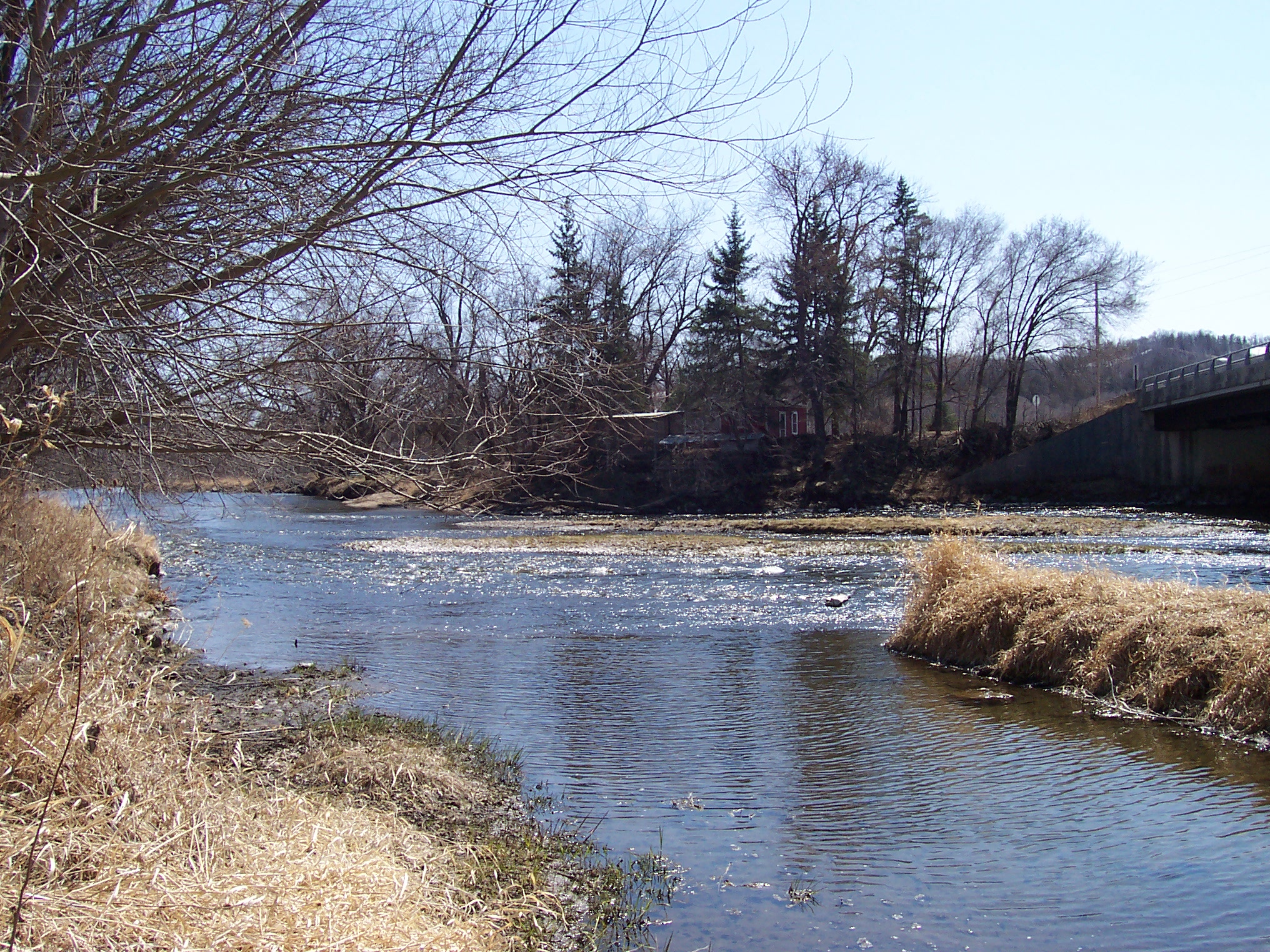 The Cannon River in April at Welch Township, Goodhue County, Minnesota